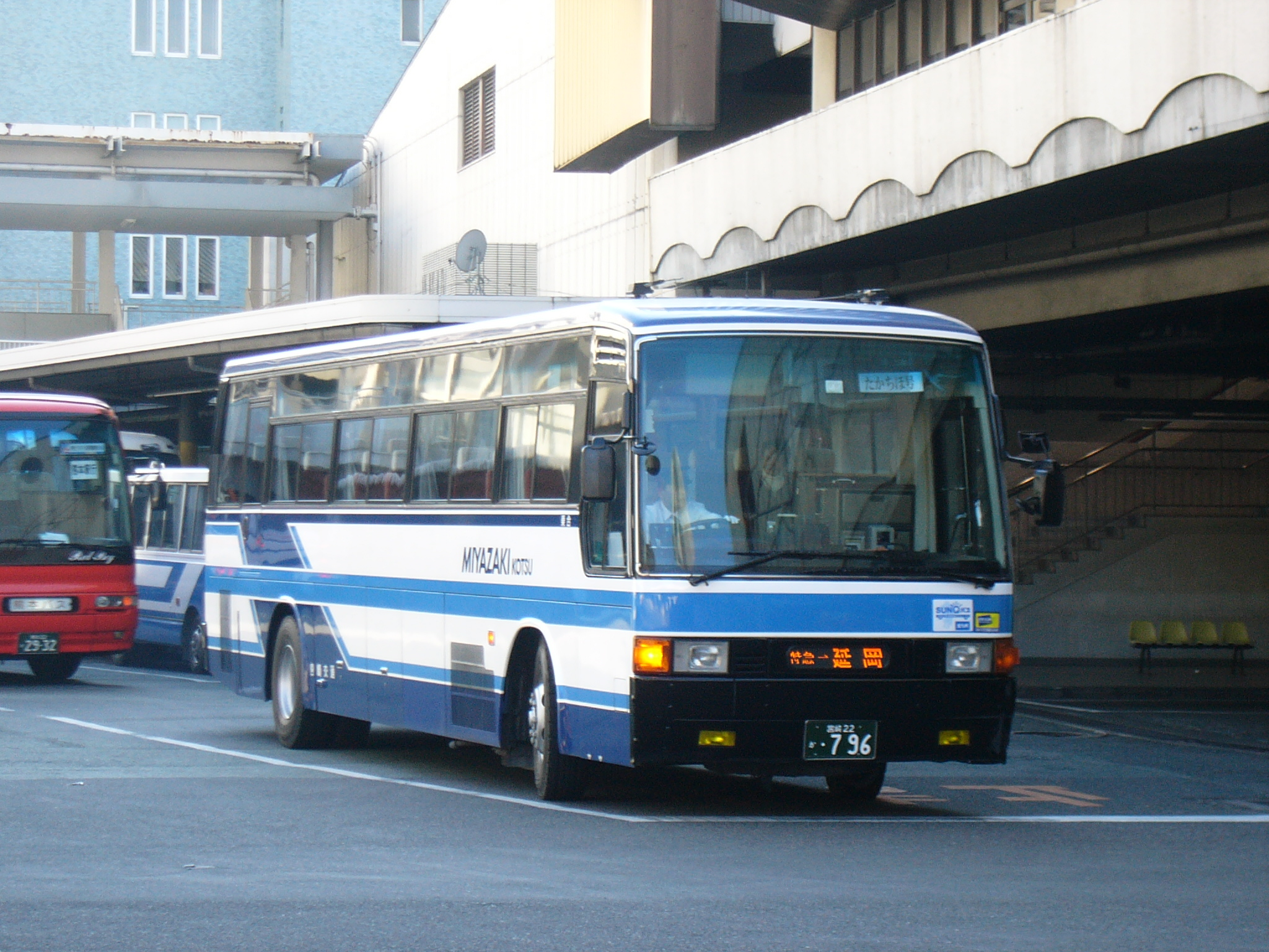 Miyazaki Kotsu bus. See below.